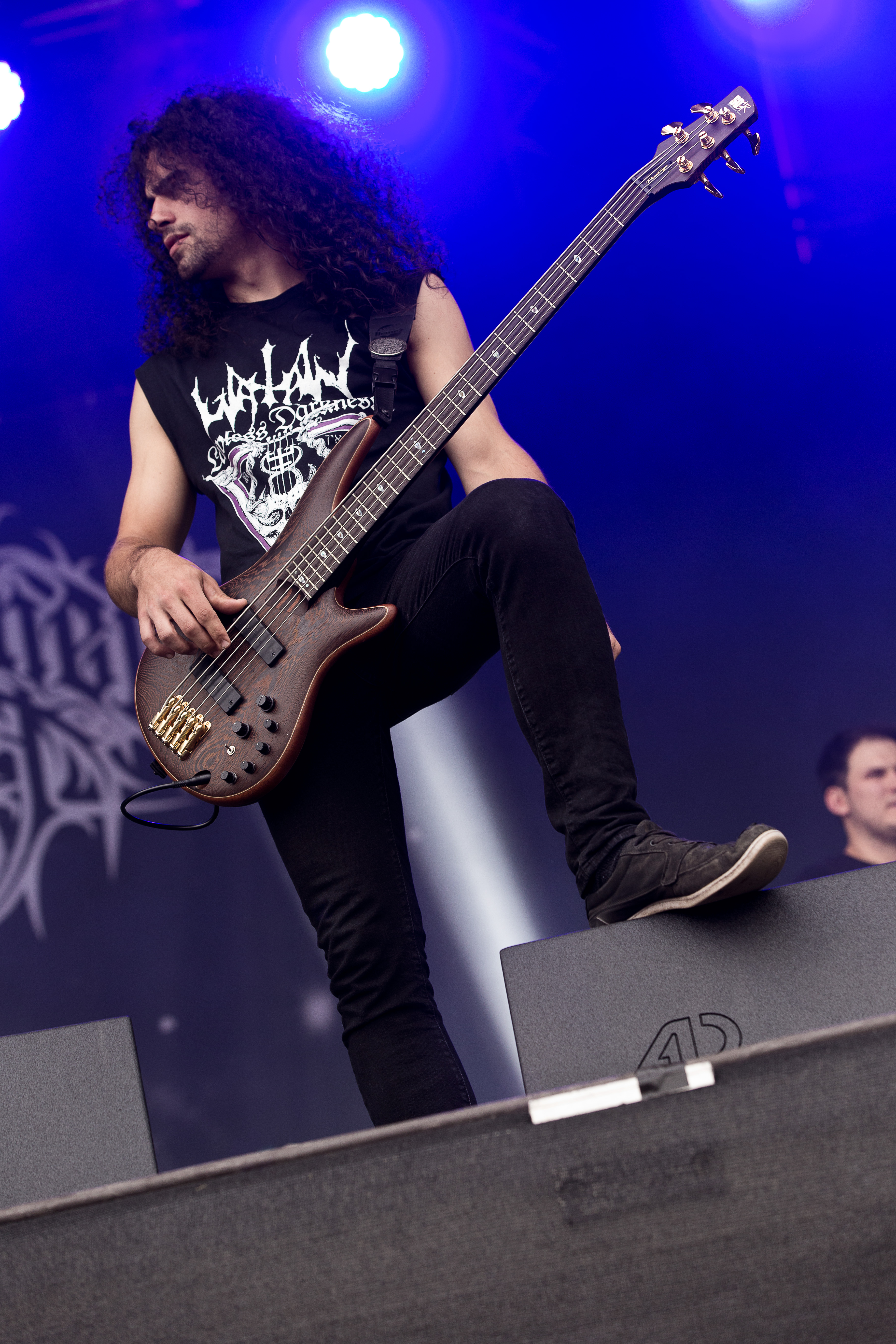 The German extreme metal band Der Weg einer Freiheit at the Rockharz Open Air 2016 in Ballenstedt/Germany.